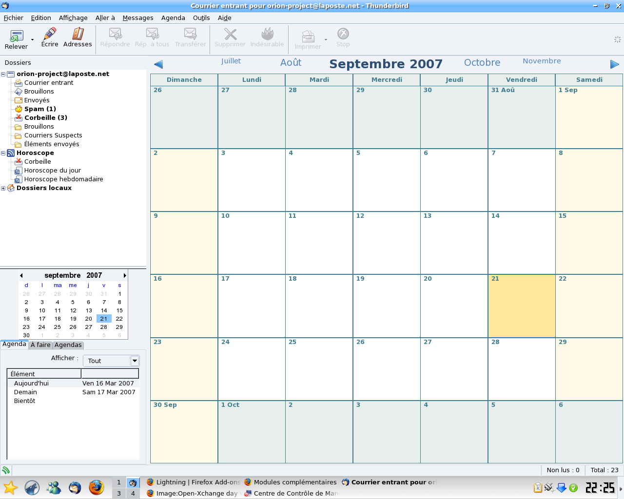 an Lightning snapshot of the mozilla plug-in for thundurbird (Mandriva Linux with Kde)